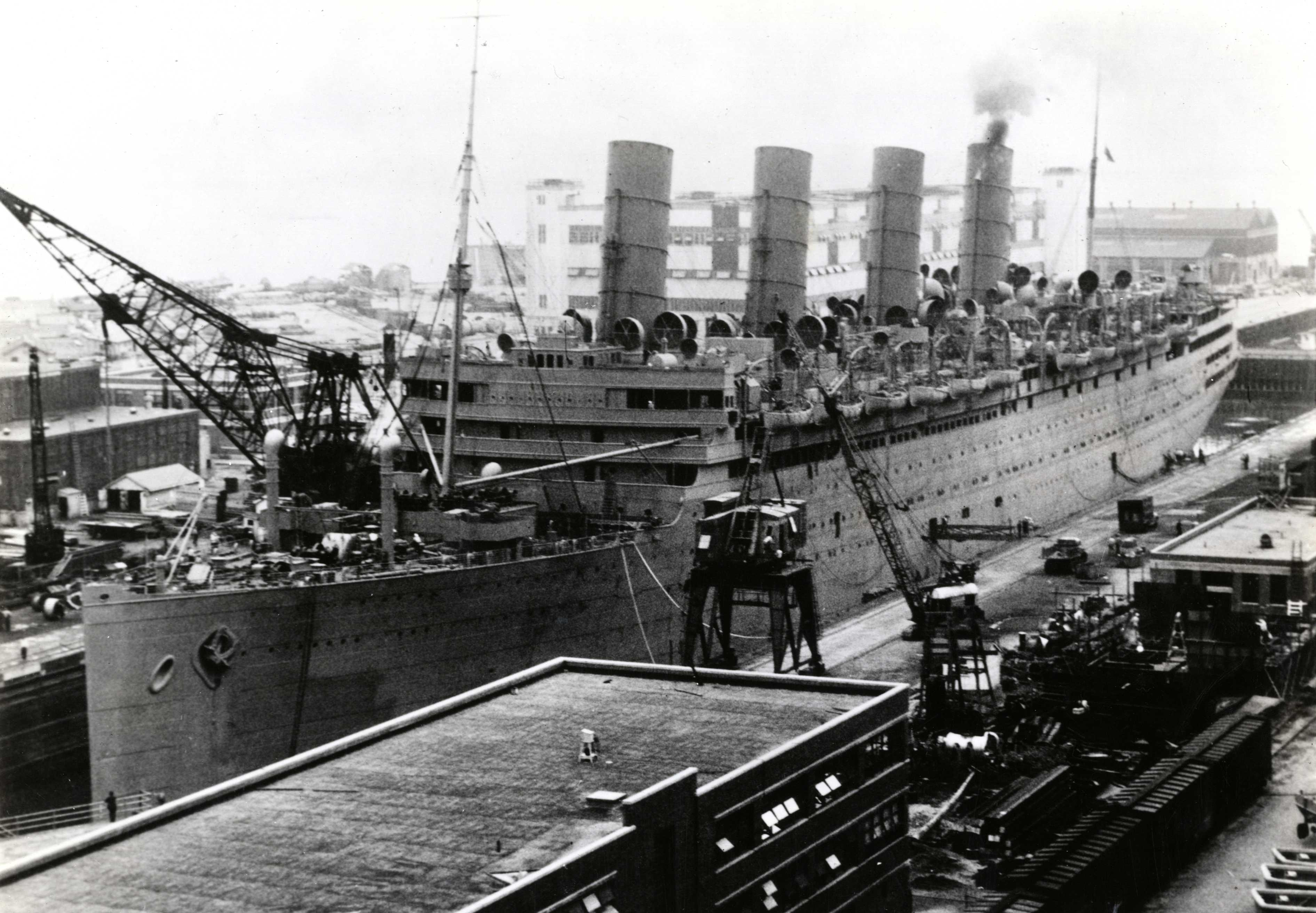 The British Cunard liner, turned troopship Aquitania under overhaul in the Boston Navy Yard, Massachusetts, USA, September 1942. The Aquitania served as a troopship in both World Wars and remained in service until late 1949. She was scrapped in early 1950.